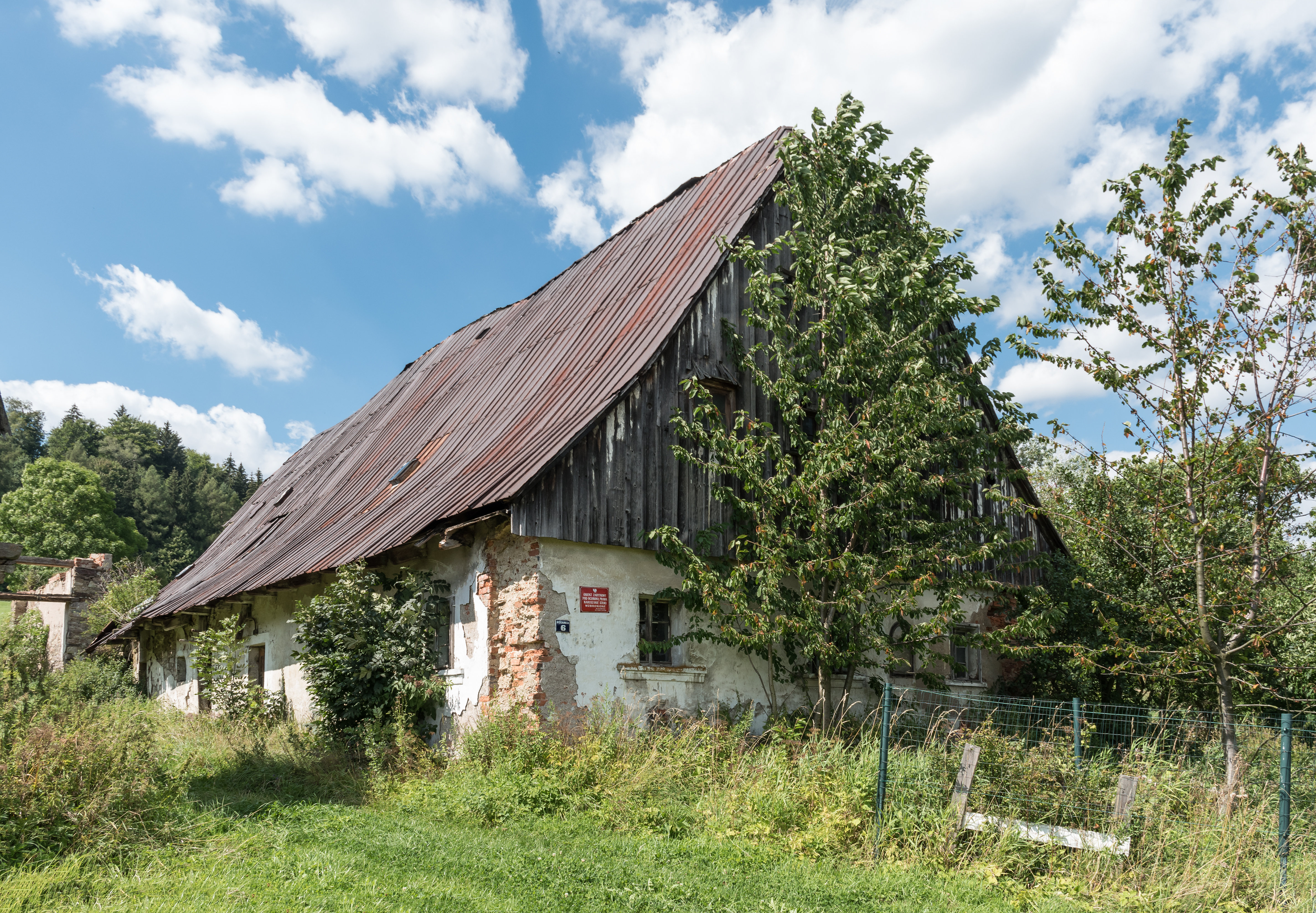 House number 6 in Różanka Wikidata has entry Q30049159 with data related to this item.